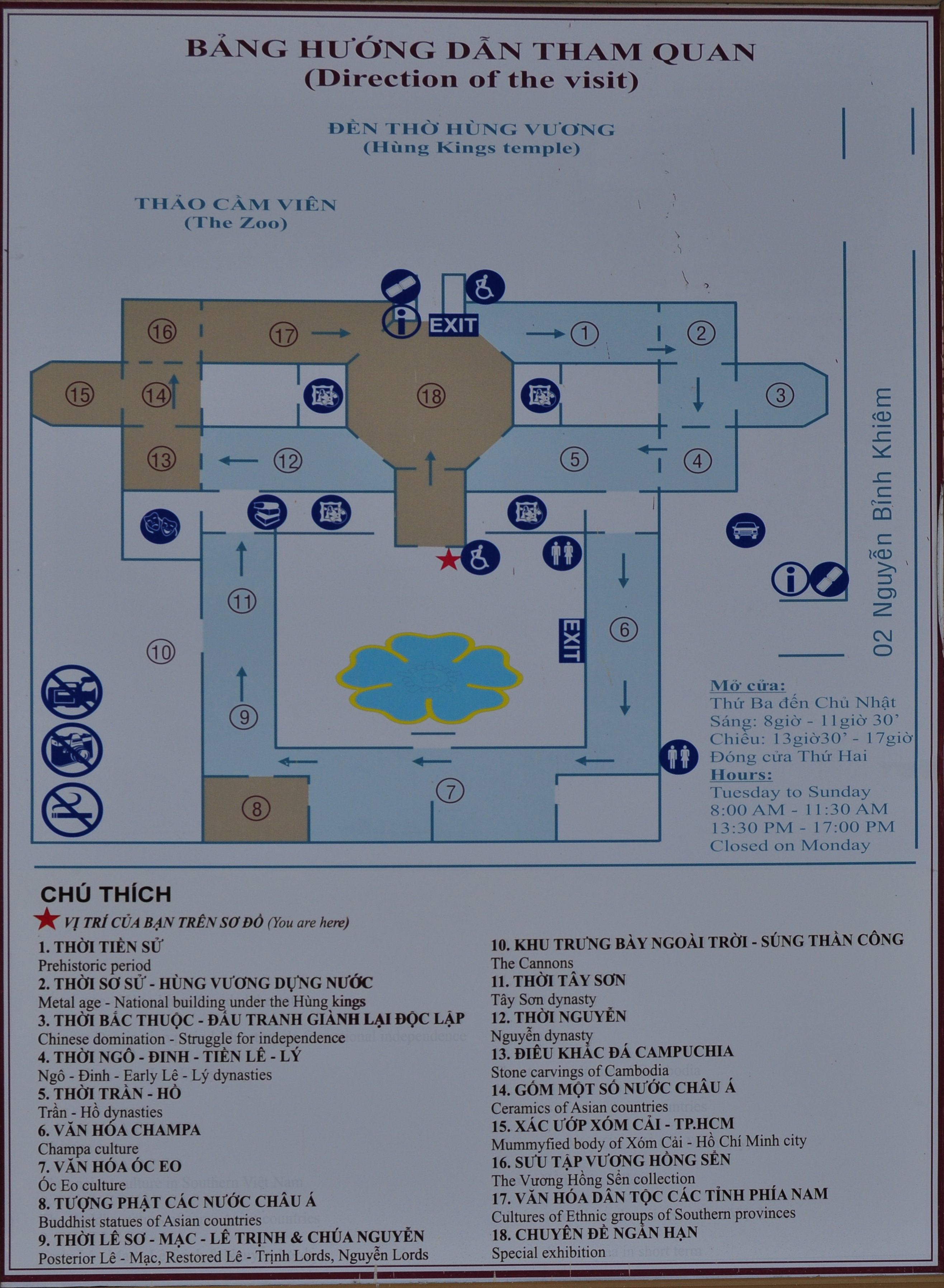 Direction of the visit of the Museum of Vietnamese History